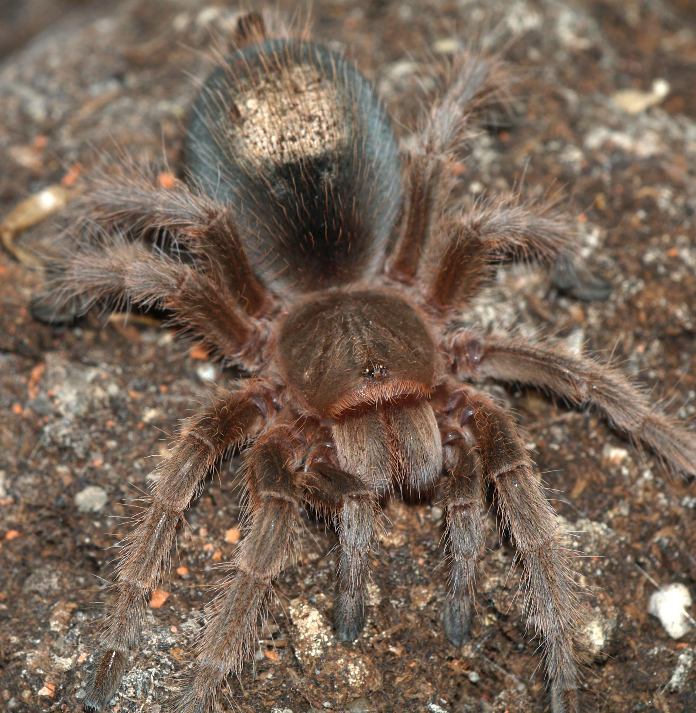 Growing Grammostola rosea, showing the patch of urticating hairs on the opisthosoma. Light appearance is due to reflection of camera flash only, in normal light it can hardly be seen. Animal is maybe half a year old and has a body length of 3 cm.